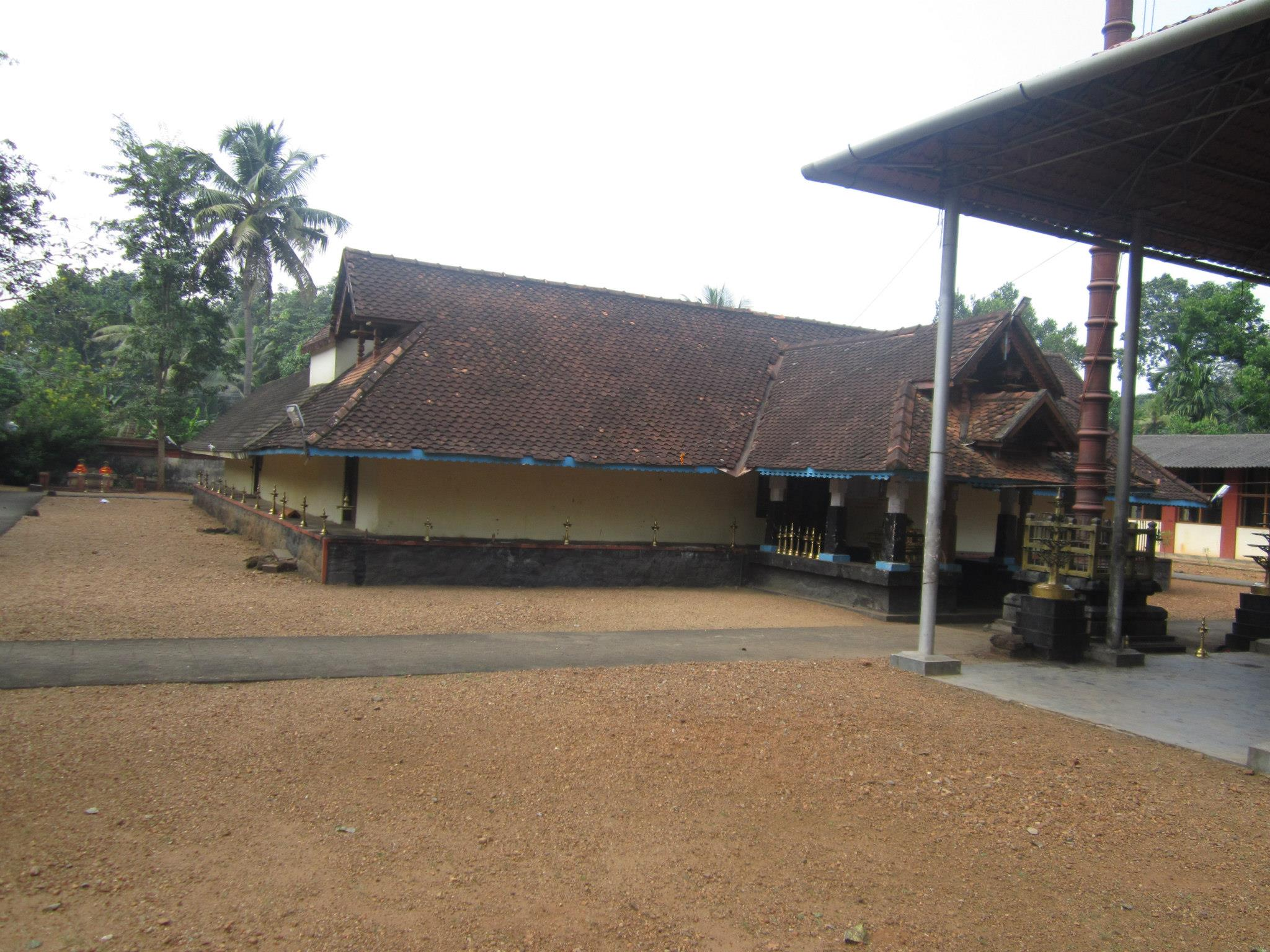 Vallicode Thrikkovil Sree Pathmanabhaswamy Temple